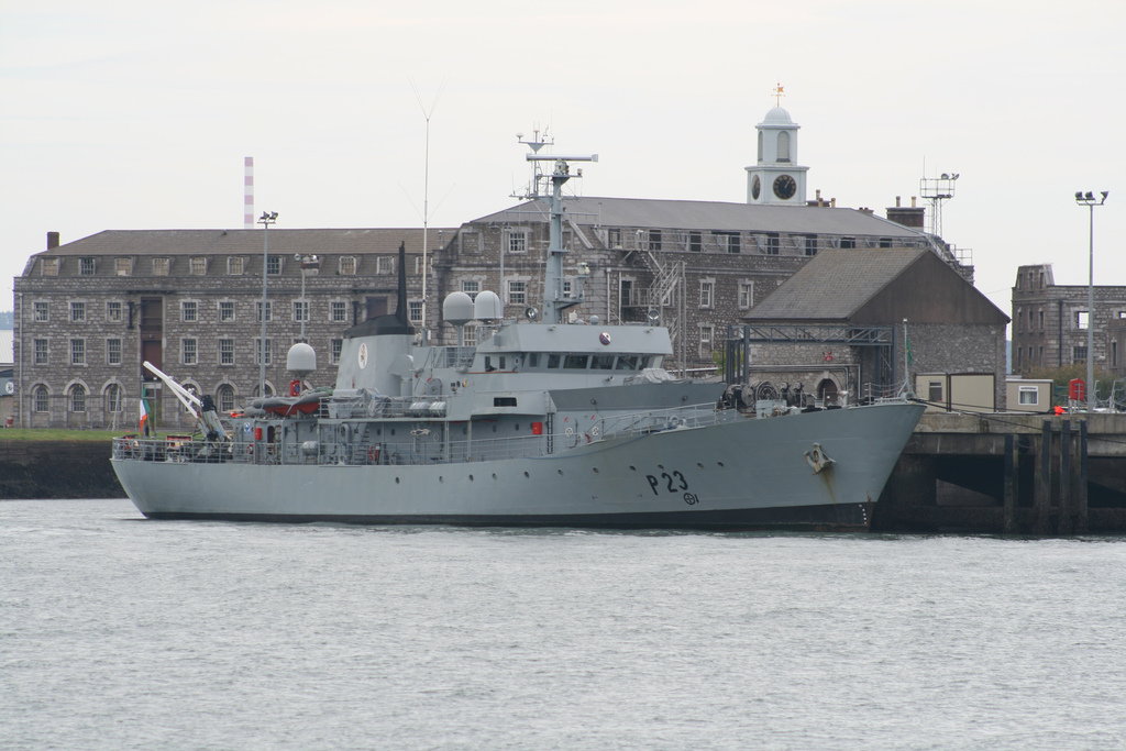 Irish Navy ship LE Aisling at Haulbowline